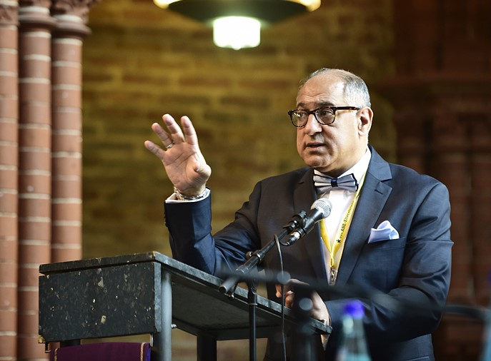 Conference talk